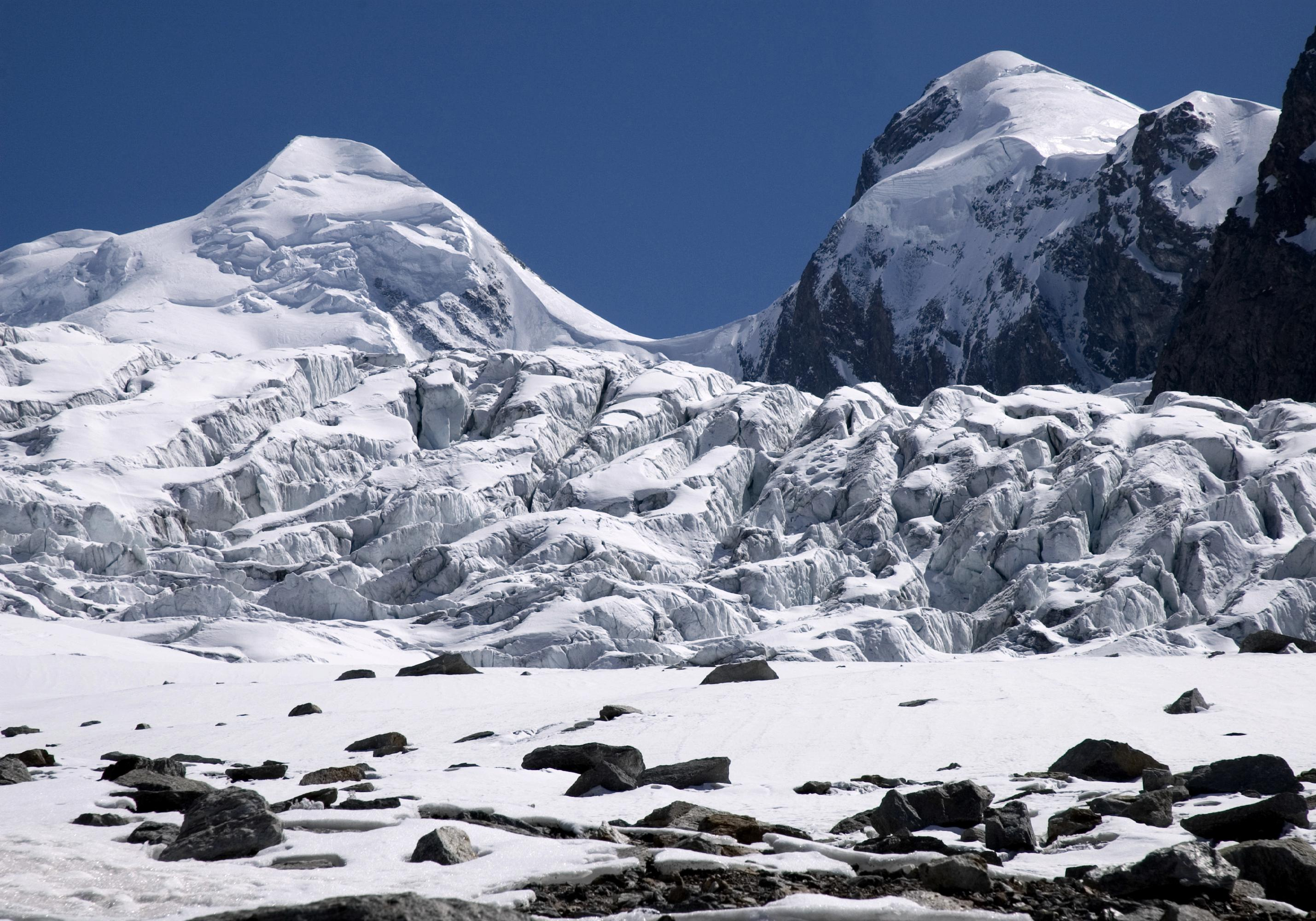 Castor (4223 metres) and Pollux (4092 metres). Grenz glacier in the foreground.